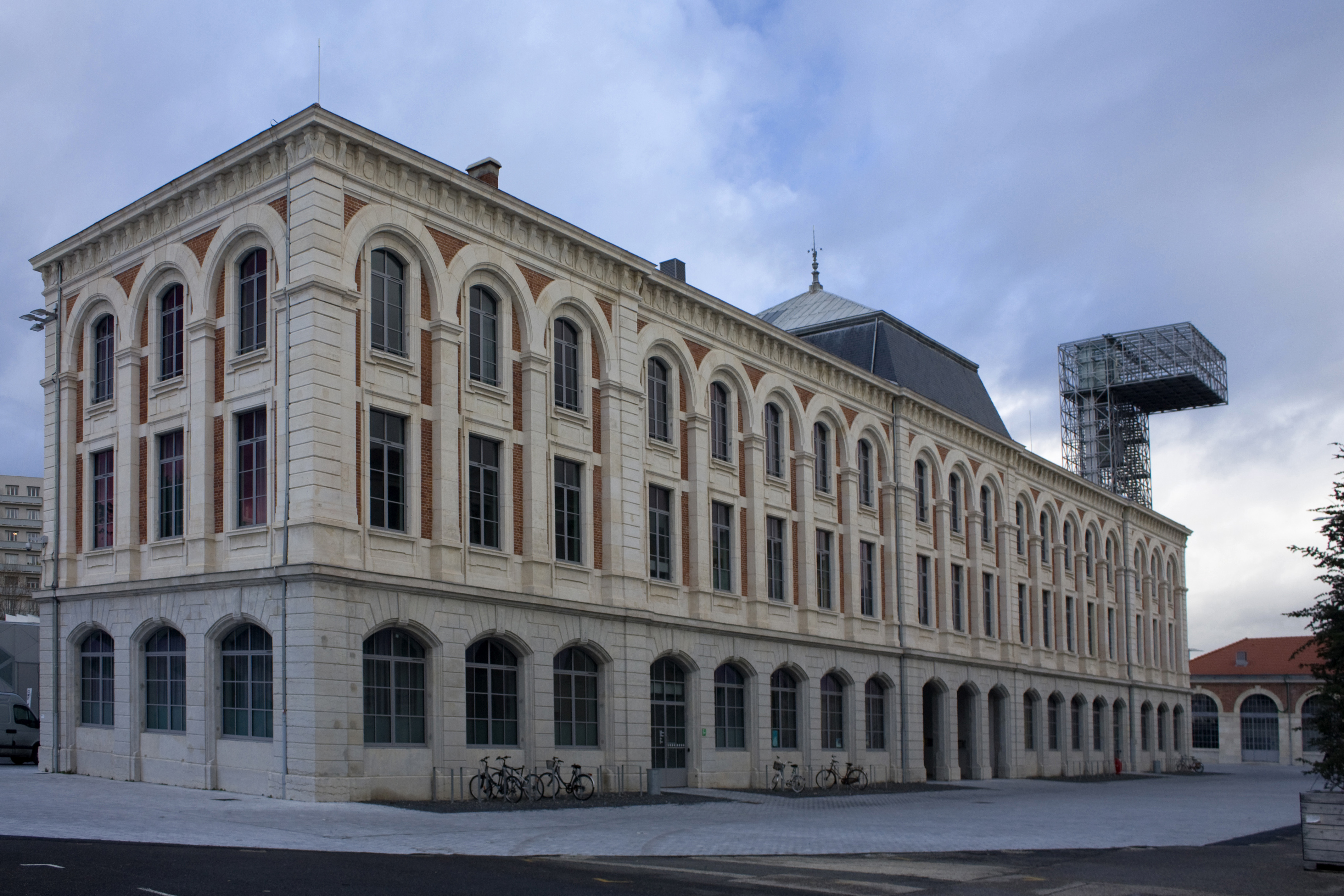 Building called " of the Clock ", offices of the former National Manufactory of Arms, known as the "Manu".